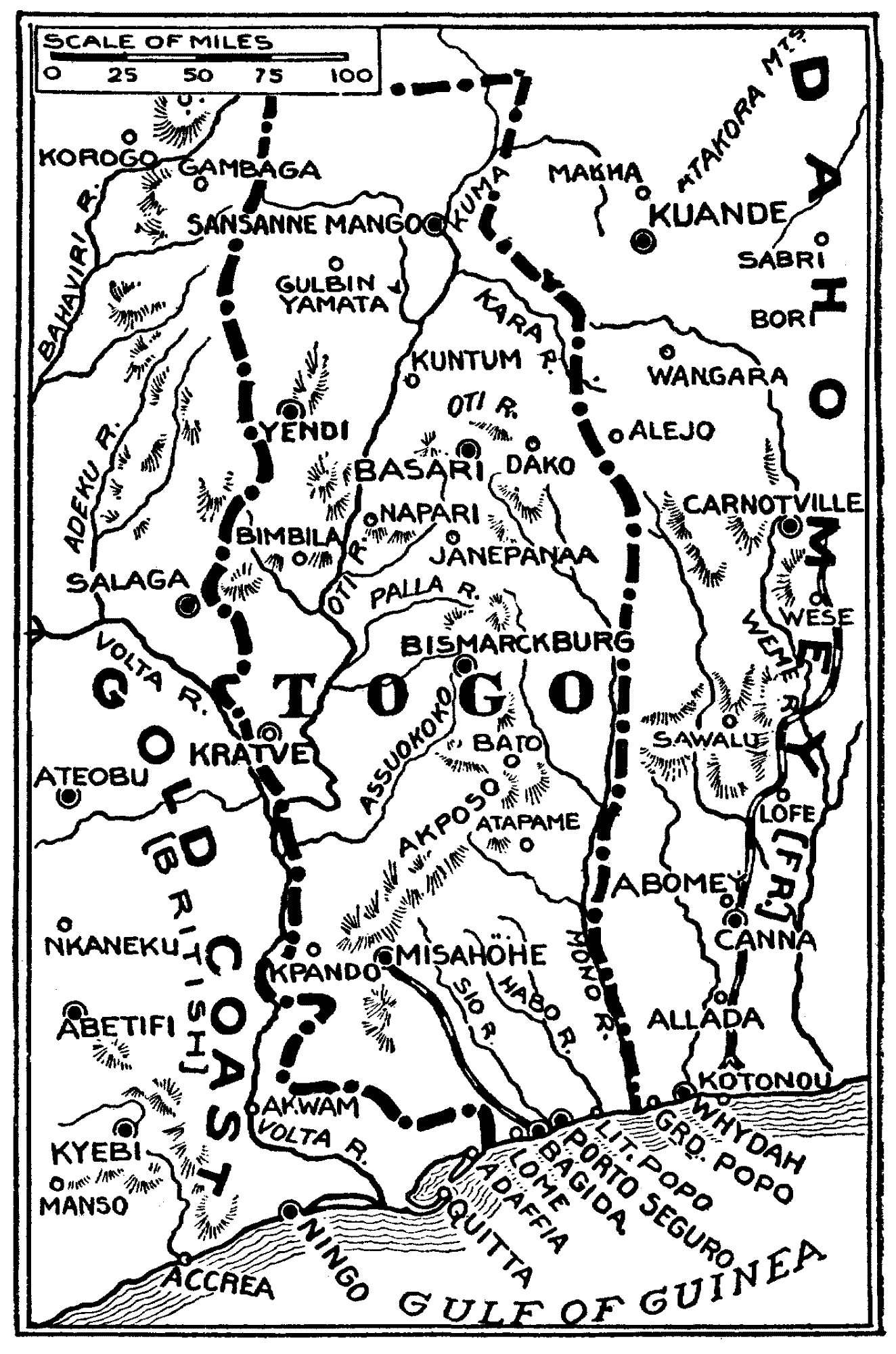 Map showing World War I actions in the German colony of Togo.